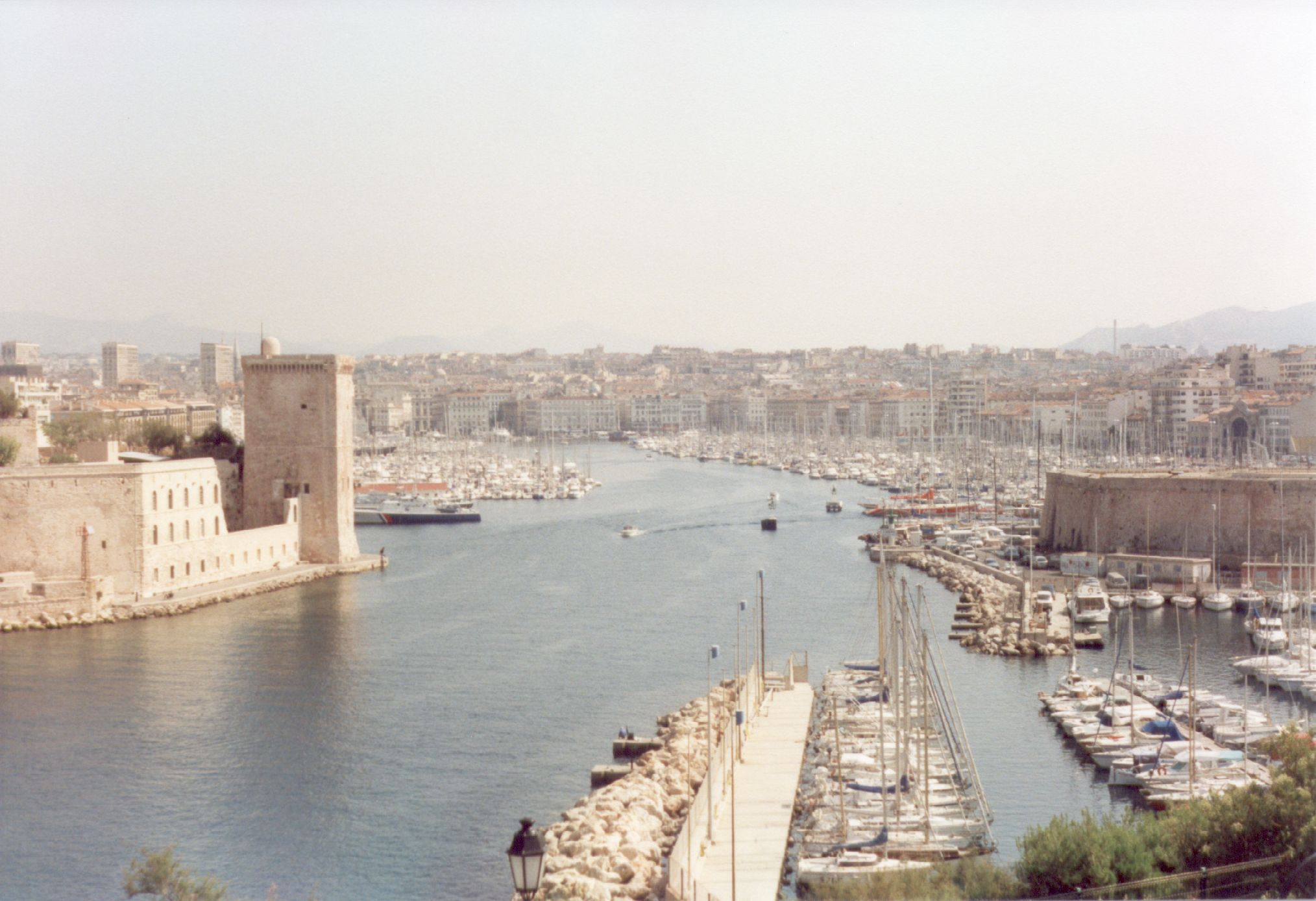 The old harbour of Marseille, France, viewed from above.